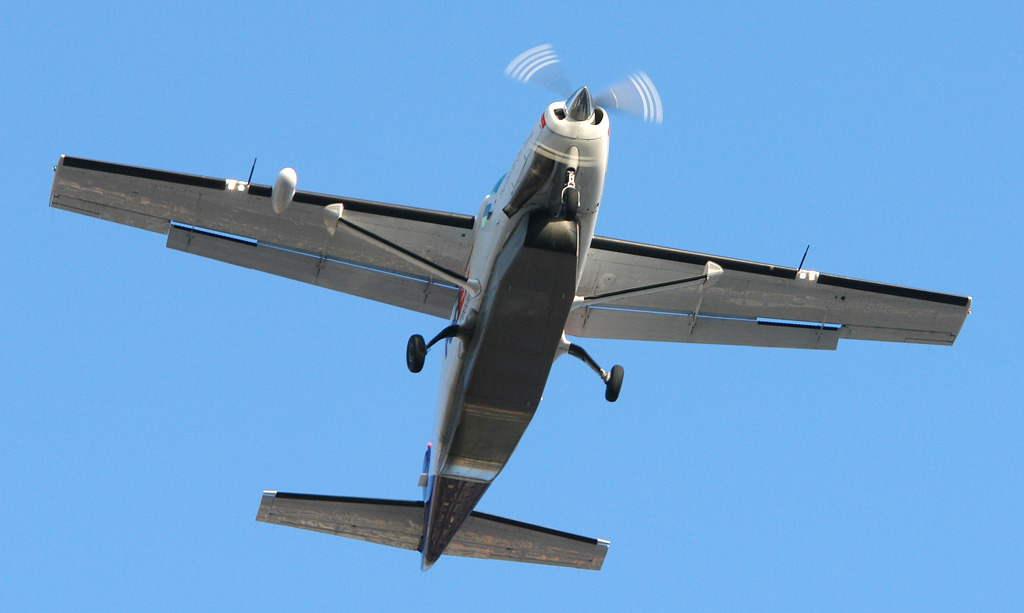 Cessna Caravan of the Federal Express company.